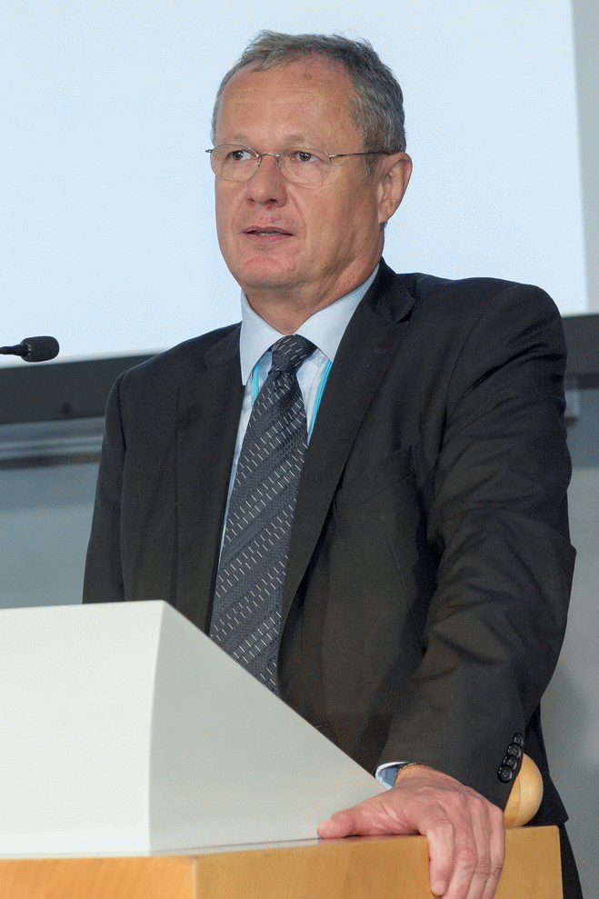 Helmut Staubmann at the Congress of the Austrian Sociological Association in October 2015 in Innsbruck